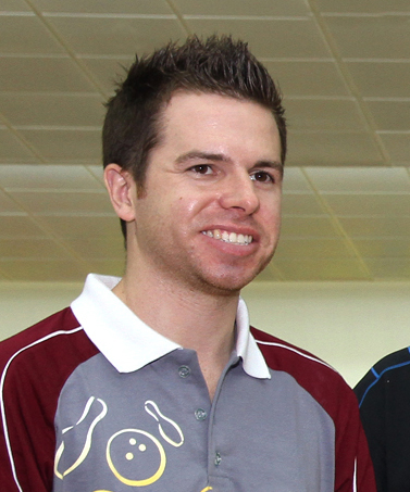 From the Flickr source: "Qatar International Bowling winners From right, Qatar International Open bowling champion Dominic Barrett, runner-up Mika Koivuniemi, and third-placed Sean Rash and Mike Fagan. Pic by Vinod Divakaran